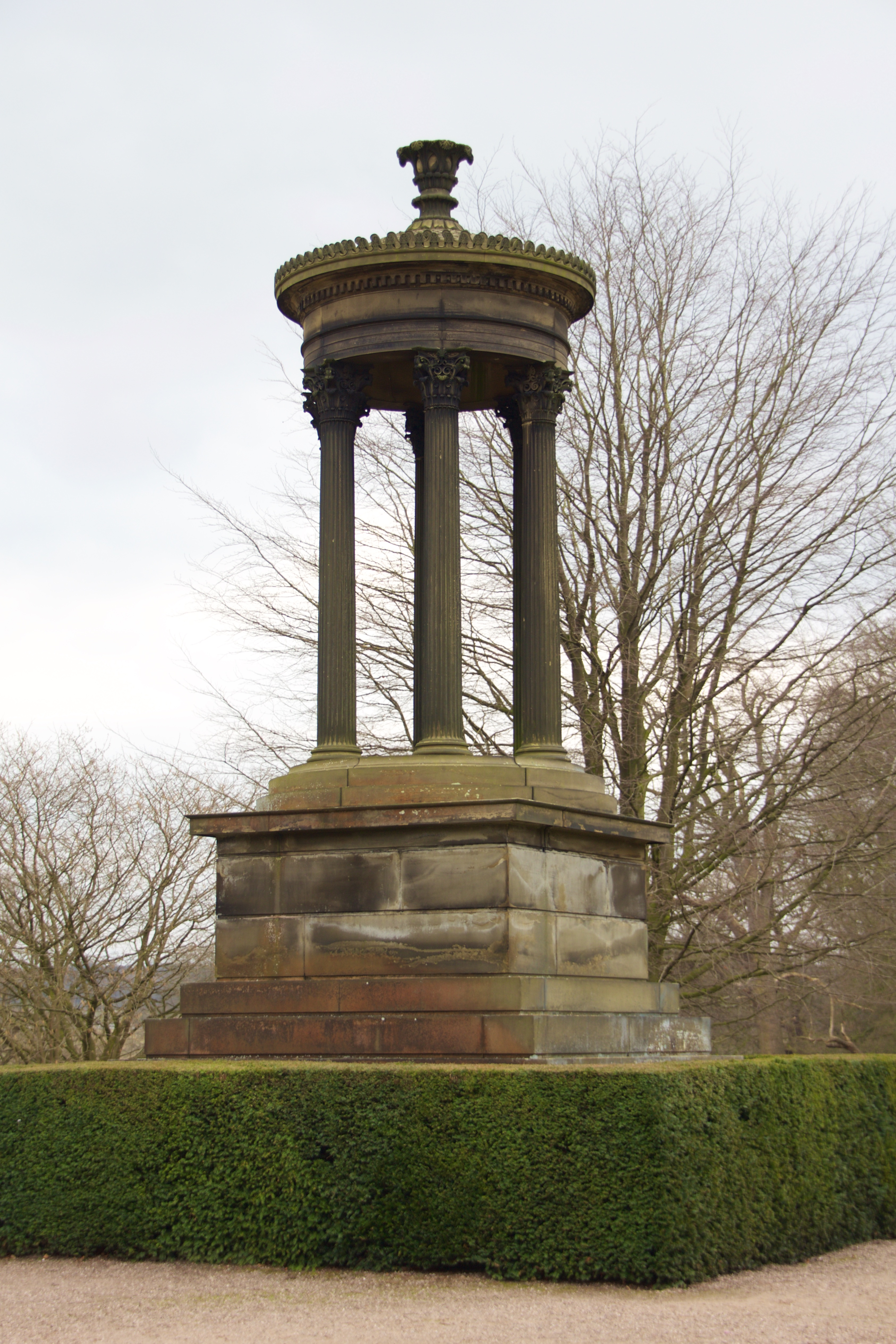 Tatton Park.